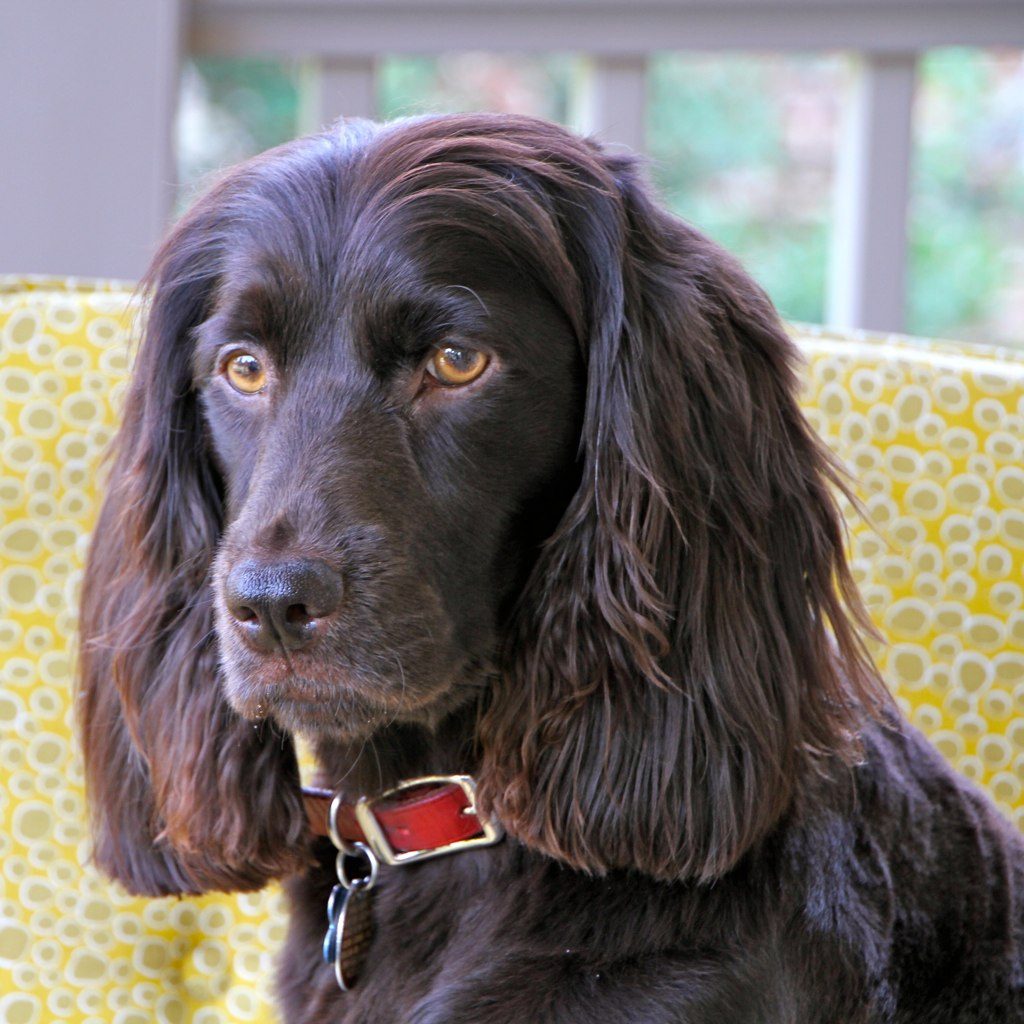 Jet strike a thoughtful pose...